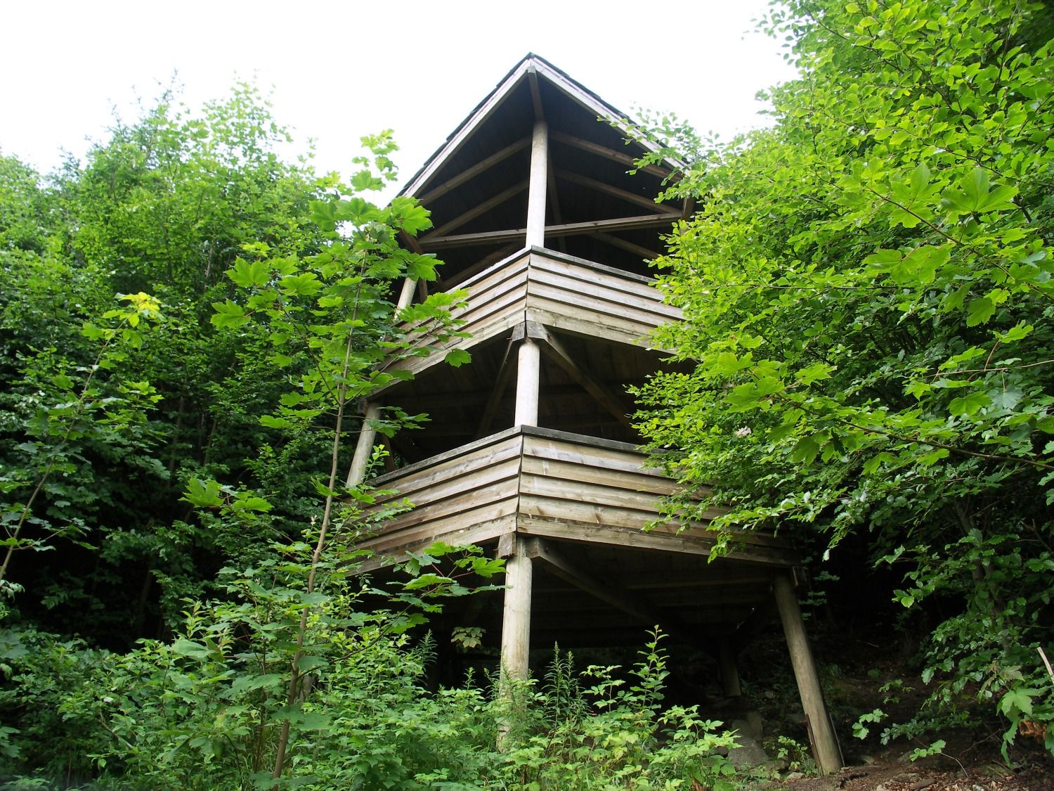 Observation tower Vyhlídka near Borová Lada in Šumava Mts., Czech Republic